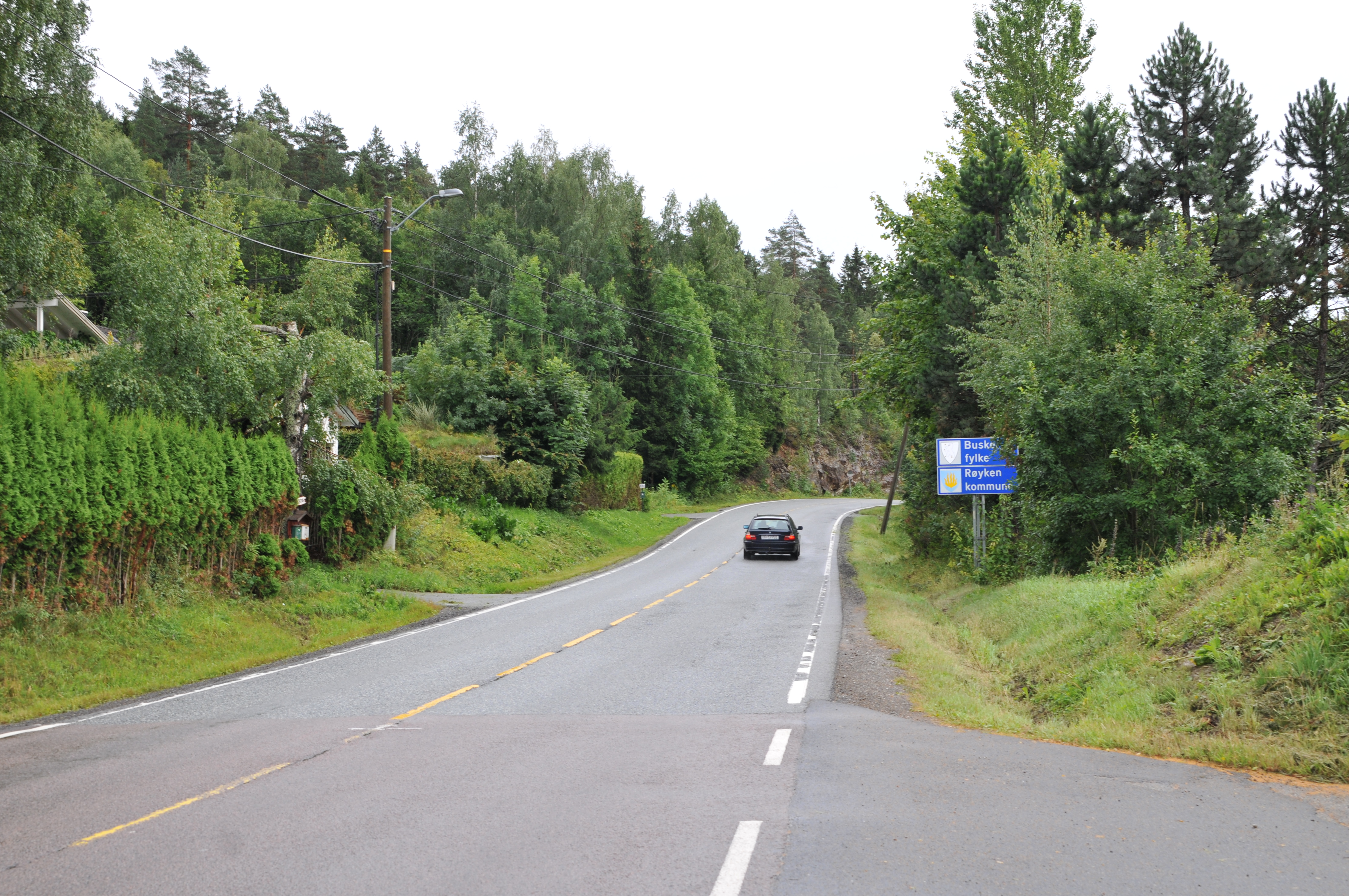 Røykenveien on the boarder between Asker and Røyken looking toward Røyken.